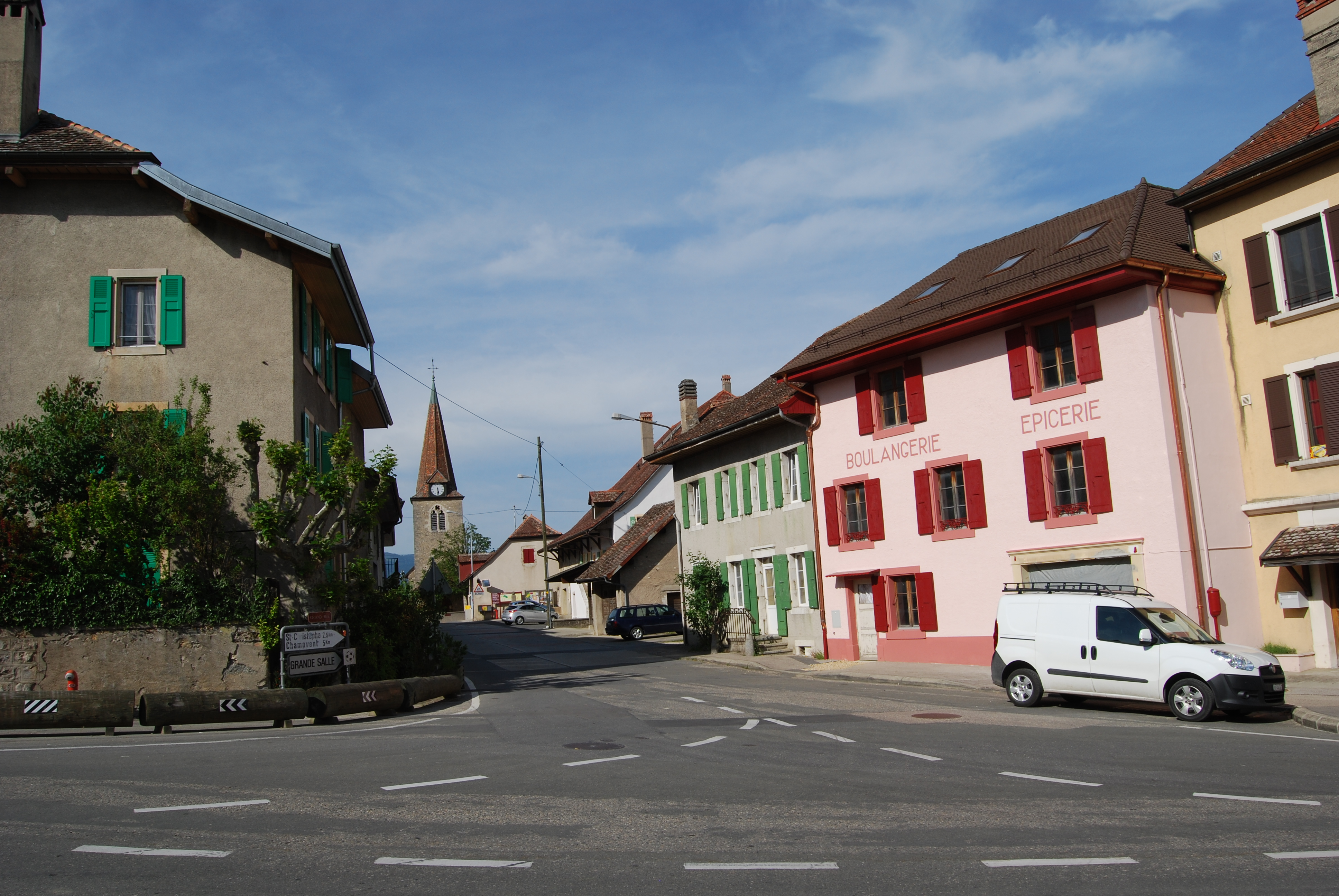 Rances, canton of Vaud, SwitzerlandEsperanto: Rances, Kantono Vaŭdo, Svislando